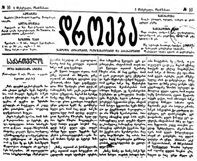 "Droeba", a 19th-century Georgian paper issue beginning with Ilia Chavchavadze's article